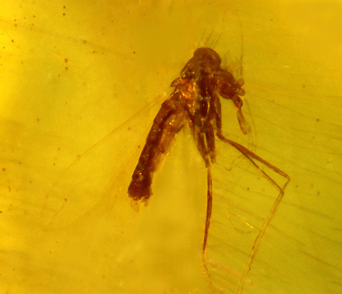 Habitus of Lutzomyia adiketis. Bar = 240 μm.